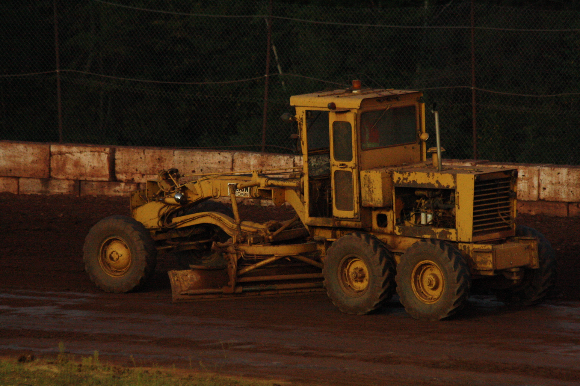 A Galion Iron Works grader leveling the surface at Tomahawk Speedway.